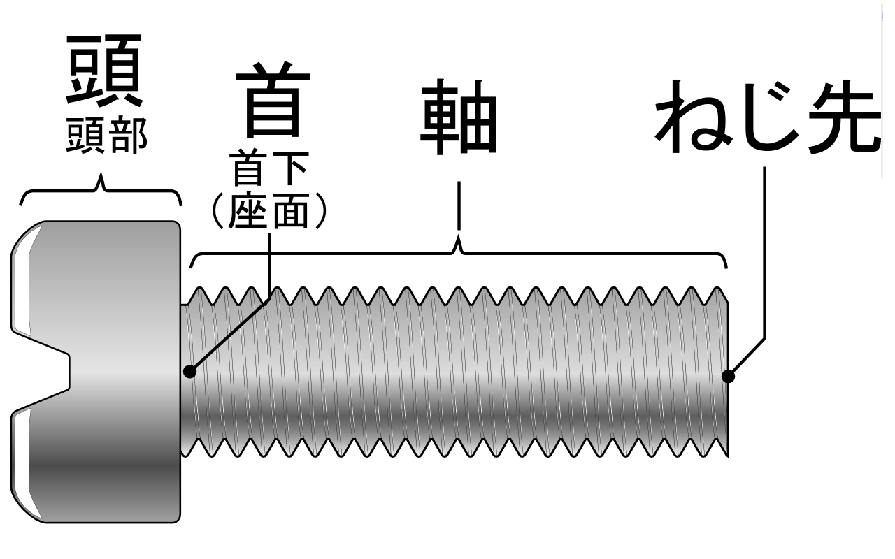 Screw (bolt) 04A-J